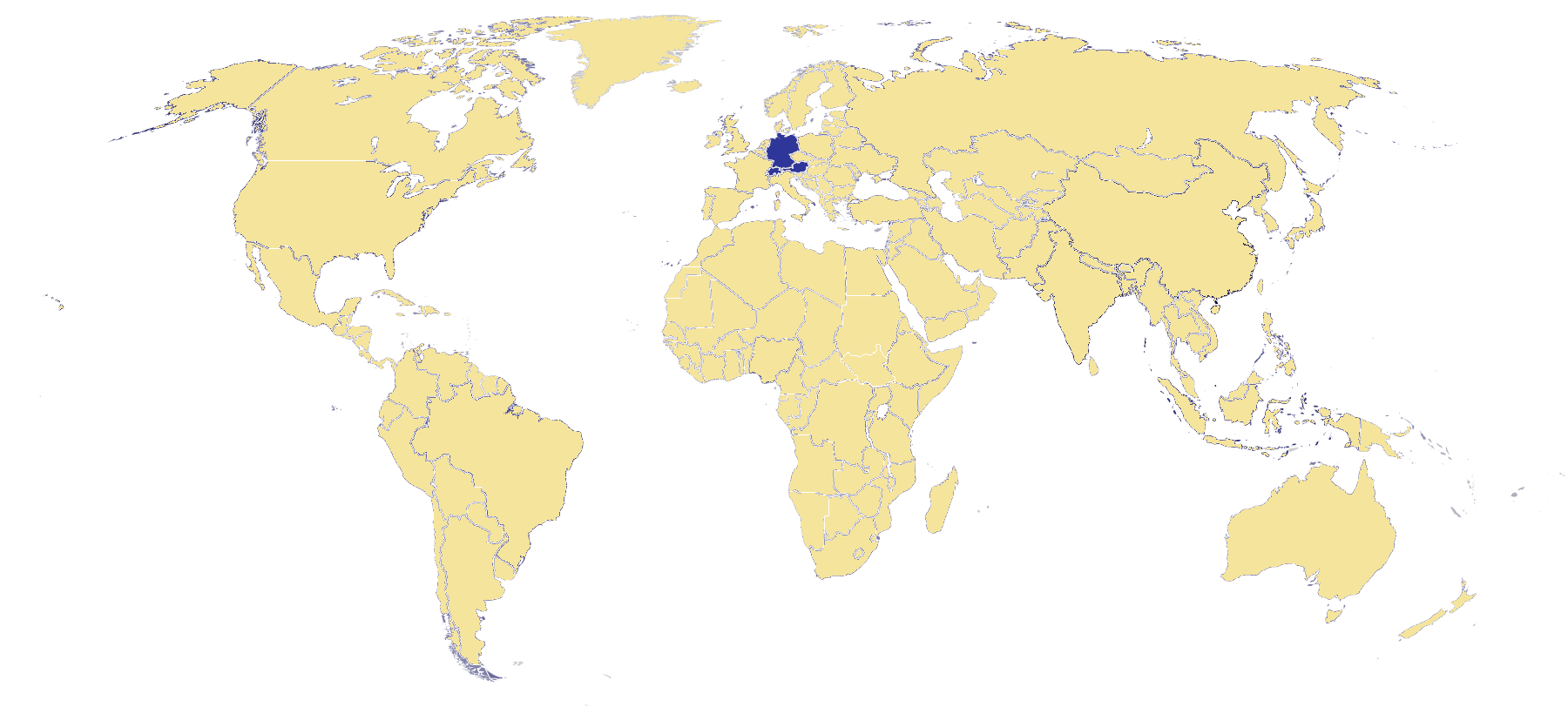 This map shows, in blue color, the countries where the German Wikipedia is the most popular language version of Wikipedia. The information has been sourced from here